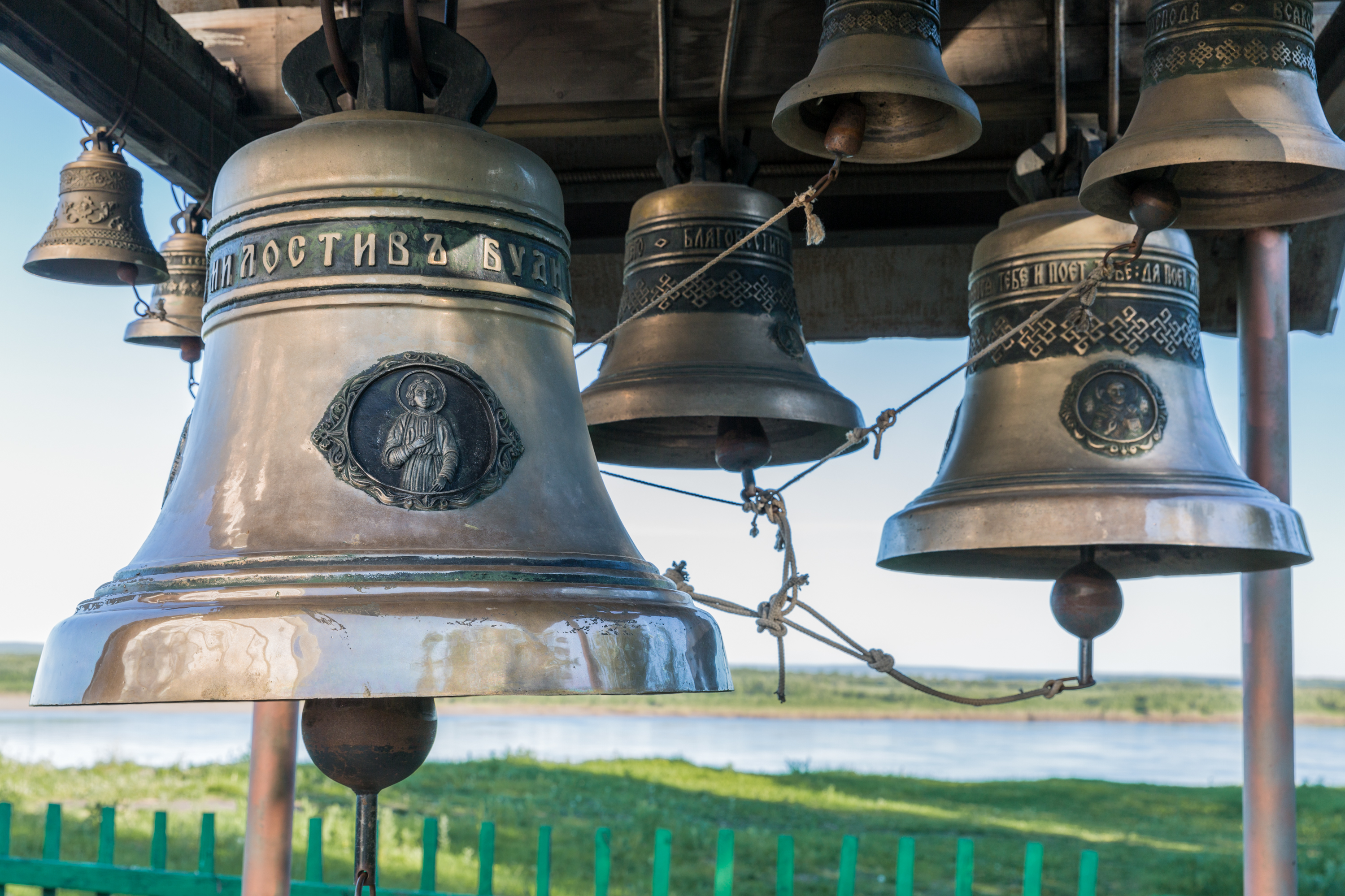 Turukhansk Church Bells